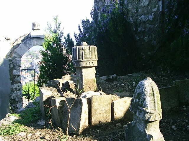 Town of Krujë, Albania